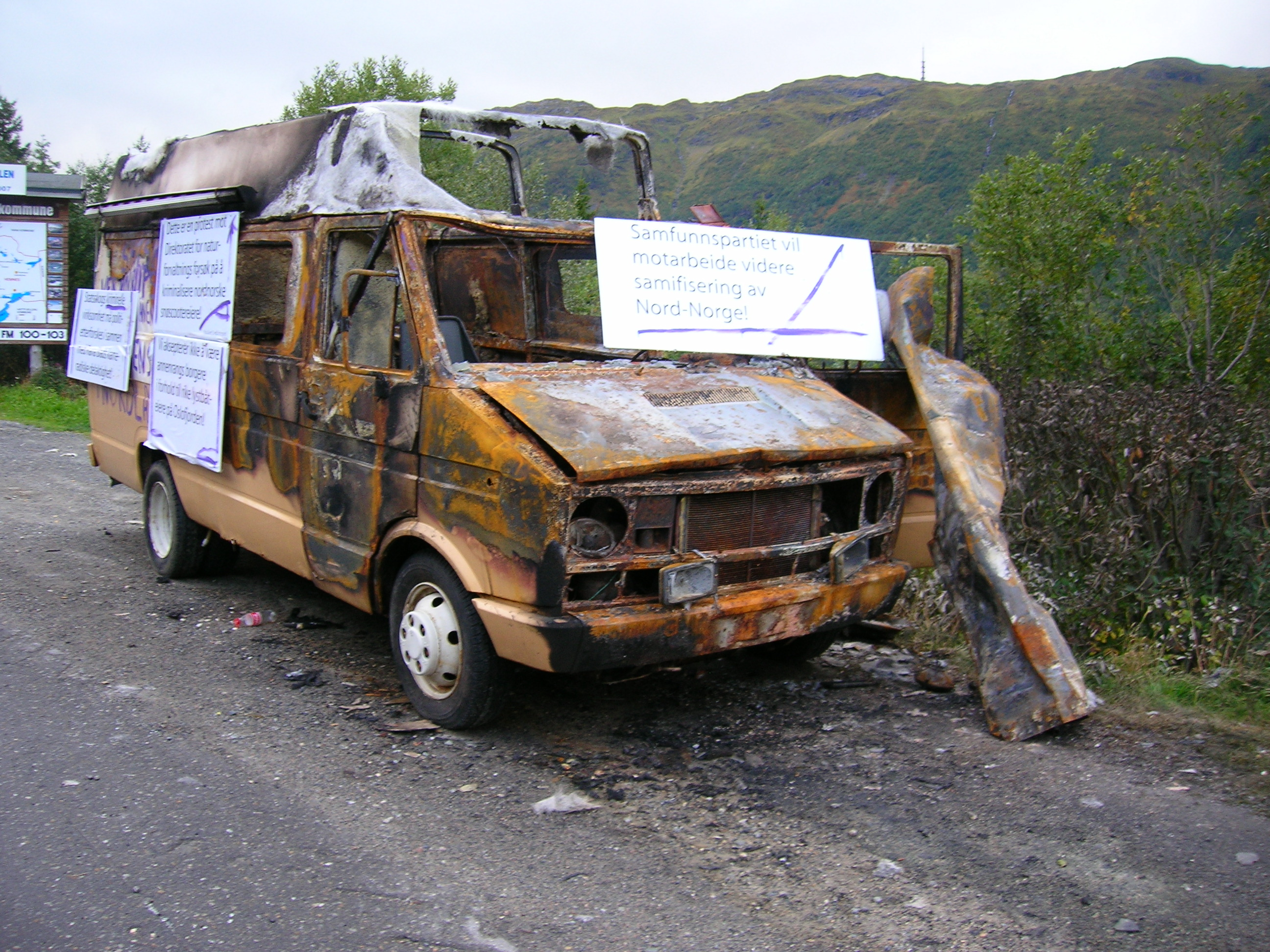 The car burned by Øystein Meier Johannesen, leader of Samfunnspartiet, on 6 September 2007 in Hemnes municipality, county of Nordland, Norway. Photo 9 September, 2007 with a Nikon Coolpix 5600 5,1 Megapixel camera.